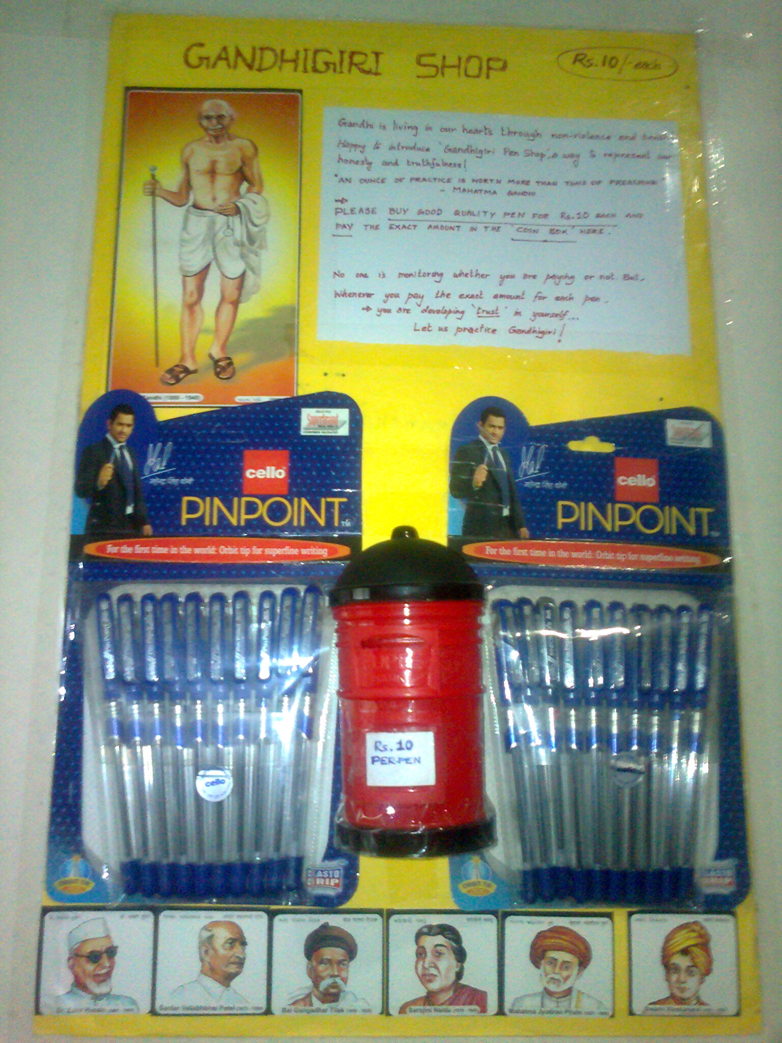 Gandhigiri shop is unmanned and runs on its own! One can run an unmanned shop by respecting each other’s honesty and truthfulness. One can walk into the shop, pick up what one wish to buy and then pay before leaving. No one is watching you, no CCTV. You operate by your conscience. Use an unmanned shop when you have exact change to pay. When you pay anything more than MRP, it goes for a social cause.